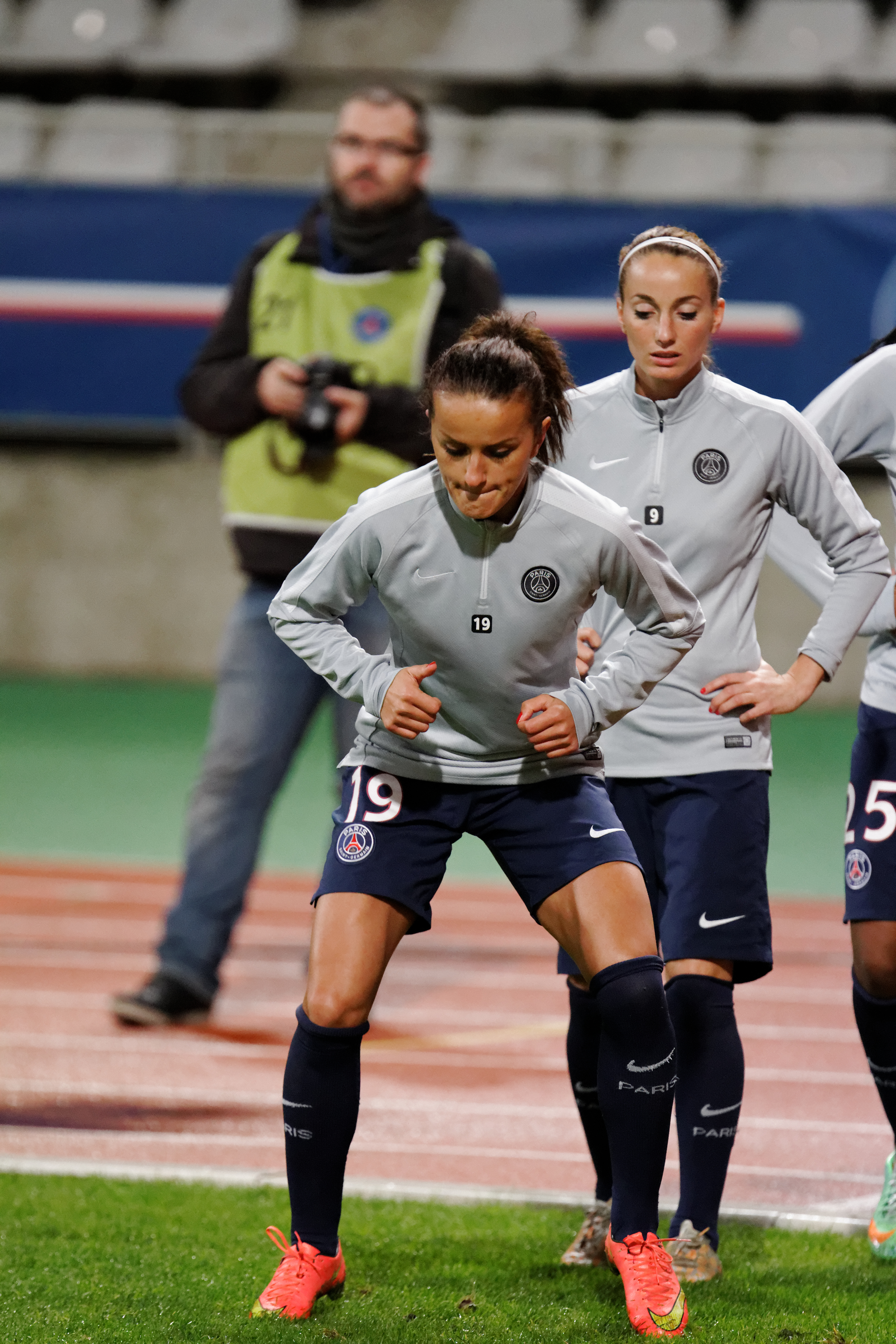 UEFA Women's Champions League, PSG - Twente, 15 October 2014